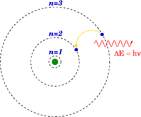 The 1913 Bohr model of the atom showing the Balmer transition from n=3 to n=2. The electronic orbitals (shown as dashed black circles) are drawn to scale, with 1 inch = 1 Angstrom; note that the radius of the orbital increases quadratically with n. The electron is shown in blue, the nucleus in green, and the photon in red. The frequency ν of the photon can be determined from Planck's constant h and the change in energy ΔE between the two orbitals. For the 3-2 Balmer transition depicted here, the wavelength of the emitted photon is 656 nm.